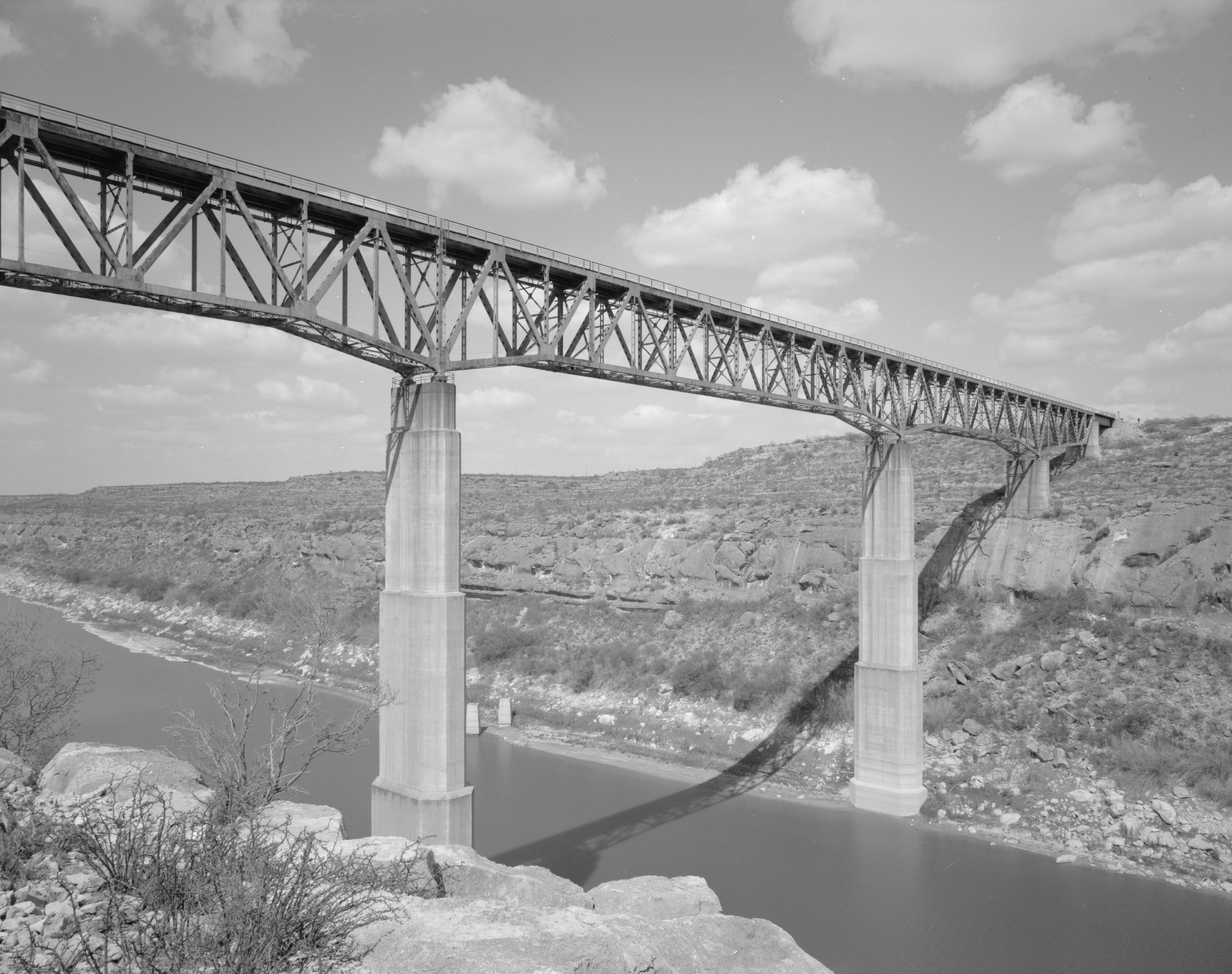 Pecos River High Bridge — a Southern Pacific Railroad bridge spanning the Pecos River in the Langtry vicinity, Val Verde County, Texas. Additional information: The Pecos River Gorge has been the location of two of the world's highest bridges: the 1892 Pecos Viaduct and the current structure, its 1944 successor. Increased traffic during World War II necessitated the replacement of this critical link on a major east-west railroad. Though built under material and labor constraints cased by the war, this 1390'-6"-long continuous steel cantilever truss' austere design is nonetheless in harmony with its remote desert setting. The Pecos River High Bridge is also significant for technical achievements, such as its 275'-high slip-formed concrete piers.